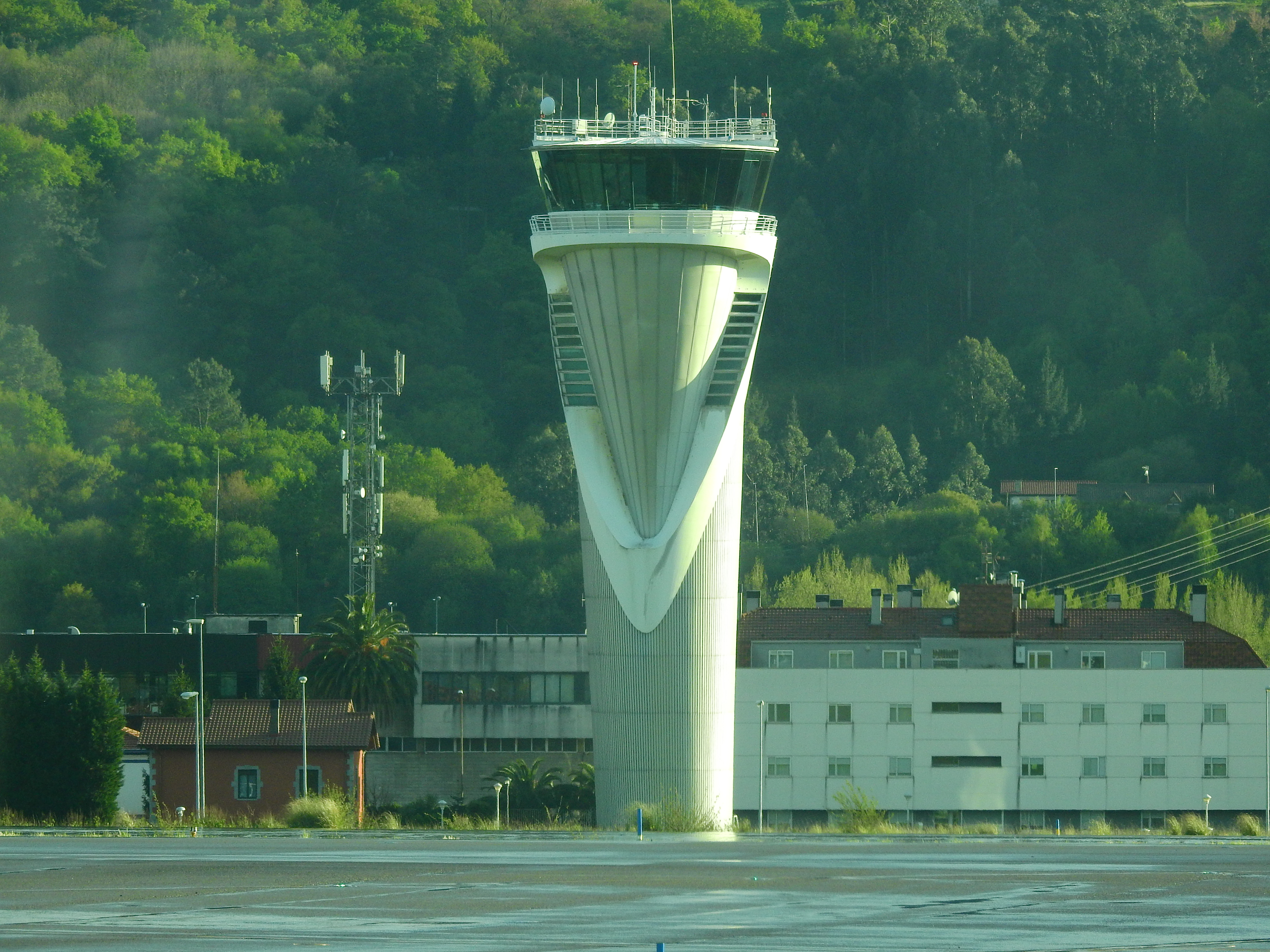 Bilbao Airport control tower. Portugal, April 2019.